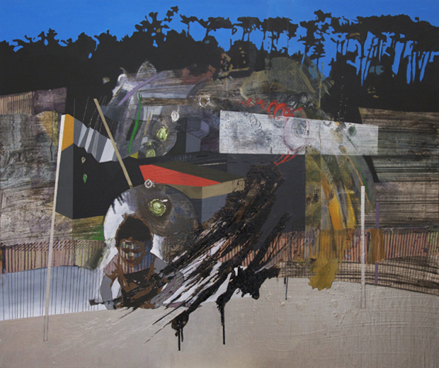 "Heritage" by Hani Zurob (2009), Acrylic and Oil on Canvas, 120x100cm